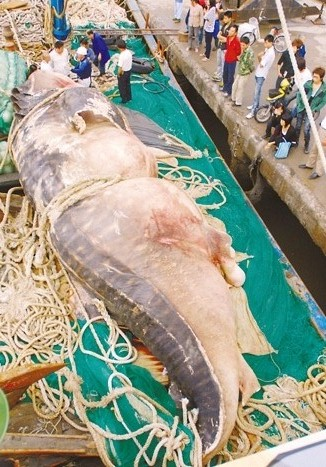 21 ton whale shark caught in China in 2008